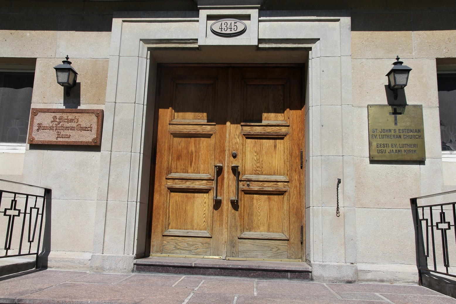 Front door of the Saint Michael's Finnish Evangelical Lutheran Church in Montreal, Quebec, Canada. An Estonian church uses this building as well. Address of the church: 4345 Avenue Marcil, Montreal, Quebec H4A 2Z9, Canada - i.e. some 500 meters SW of Villa-Maria metro station.